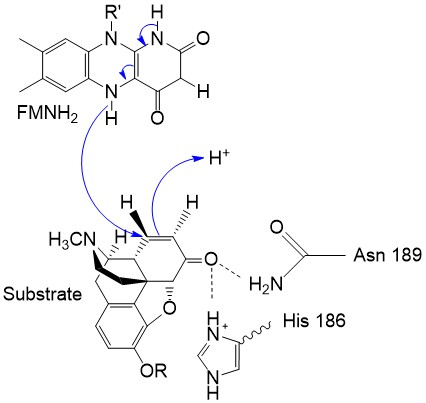 A proposed reduction mechanism catalyzed by morphinone reductase.